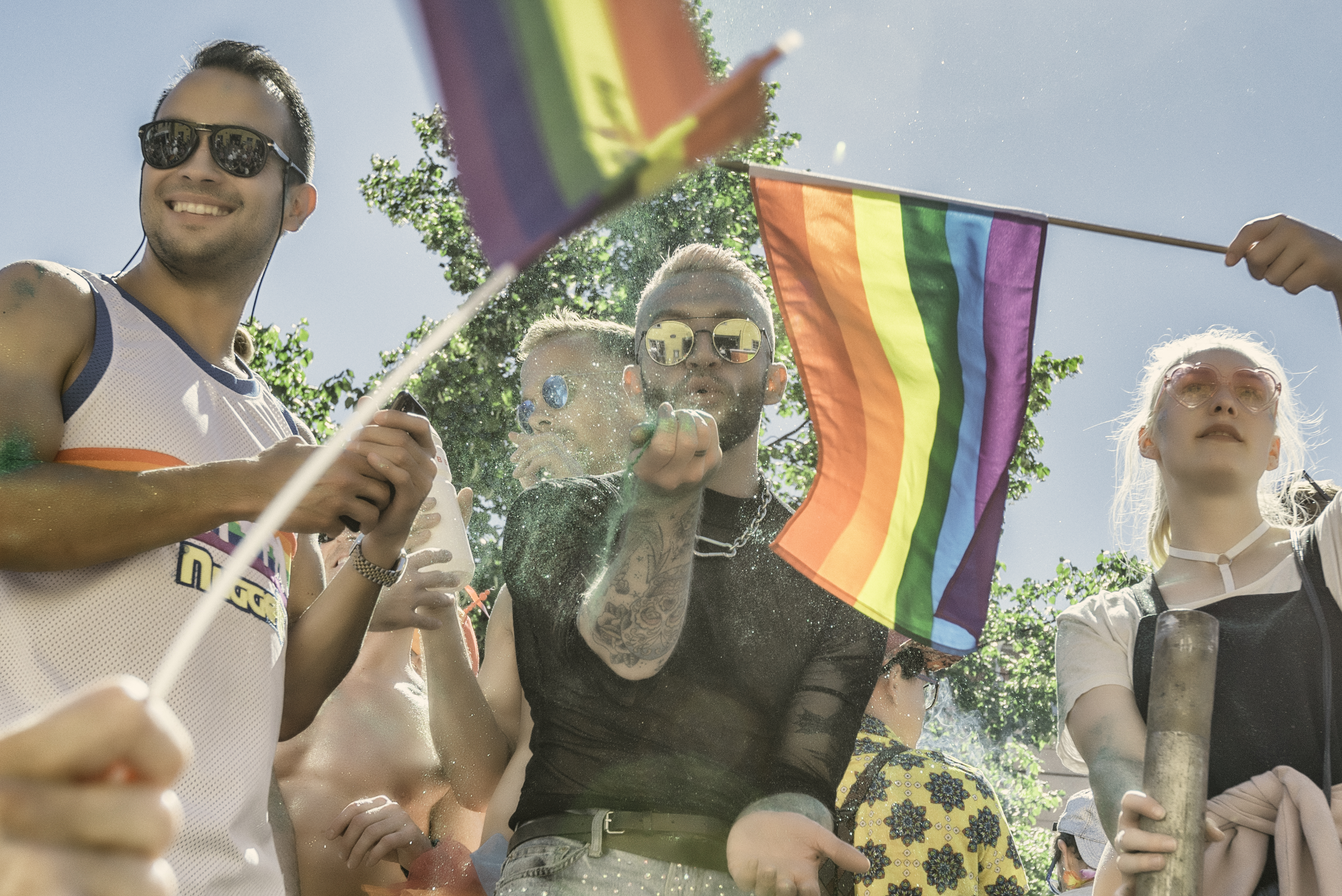 Oslo Pride ParadeLocation: Oslo NorwayEvent type: Oslo Pride ParadeDate or year: 2018